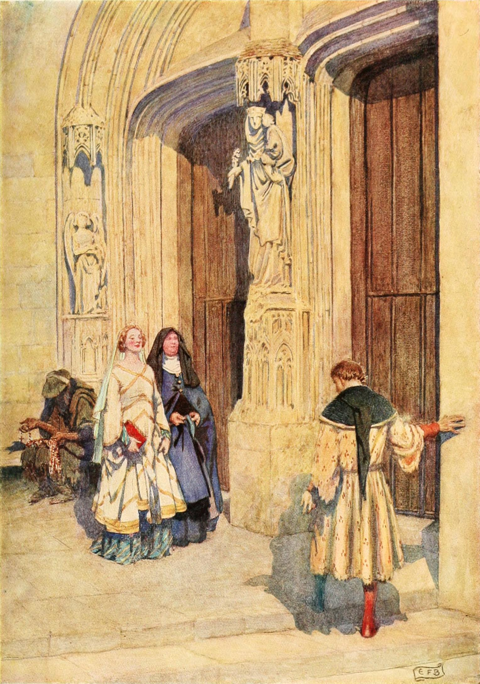 Title: Eleanor Fortesque Brickdale's Golden book of famous women Year: 1919 (1910s) Authors: Fortescue-Brickdale, Eleanor Subjects: Women in literature Publisher: London New York : Hodder and Stoughton Text Appearing After Image: JOAN OF ARC 49 Even at their feast plan the device of death. My soul grew sick within me : then me thought From a dark lowering cloud, the womb of tempests, A giant arm burst forth, and dropt a sword That pierced like lightning thro the midnight air. Then was there heard a voice, which in mine ear Shall echo, at that hour of dreadful joy When the pale foe shall wither in my rage. ROBERT SOUTHEY. QUEEN KATHARINE On her trial before King Henry VIII, Cardinal Wolsey, and Cardinal Campeius. She goes about the Court and kneels at the feet of the King. Queen Katharine. Sir, I desire you to do me right and justice, And to bestow your pity on me ; for I am a most poor woman, and a stranger, Born out of your dominions ; having here No judge indifferent, nor no more assurance Of equal friendship and proceeding. Alas, sir, In what have I offended you ? what cause Hath my behaviour given to your displeasure, That thus you should proceed to put me off. And take your good grace from me ? Heaven witness, I have been to